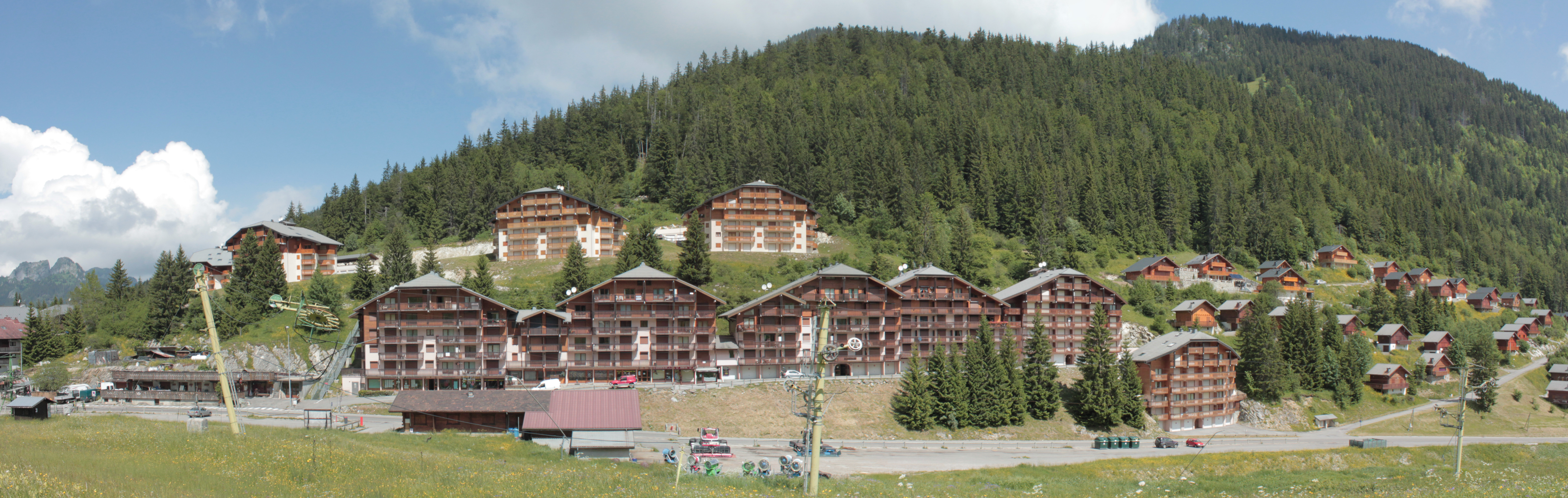 Col du Corbier, Haute-Savoie, France, 26 June 2013, panoramic view